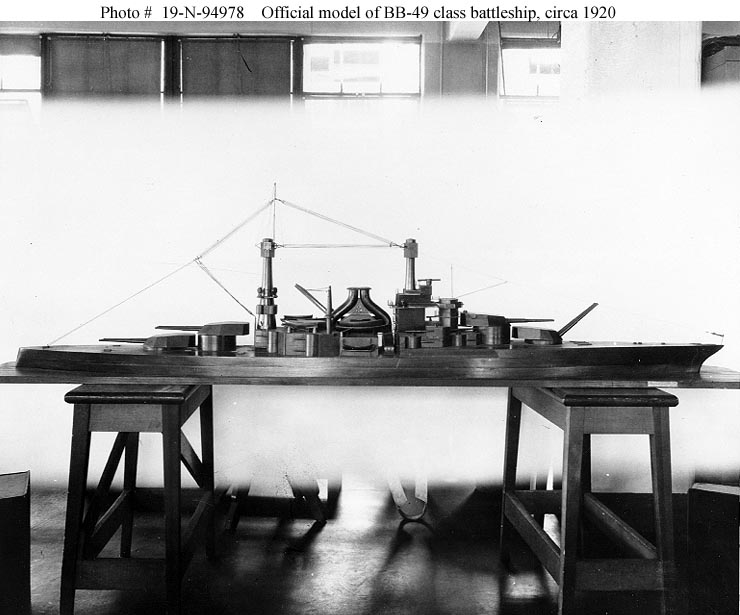 Photo #: 19-N-94978 South Dakota class battleship (BB 49-54) Official model, photographed circa 1920. The ships of this class, none of which were completed, were: South Dakota (BB-49); Indiana (BB-50); Montana (BB-51); North Carolina (BB-52); Iowa (BB-53); Massachusetts (BB-54); Photograph from the Bureau of Ships Collection in the U.S. National Archives.